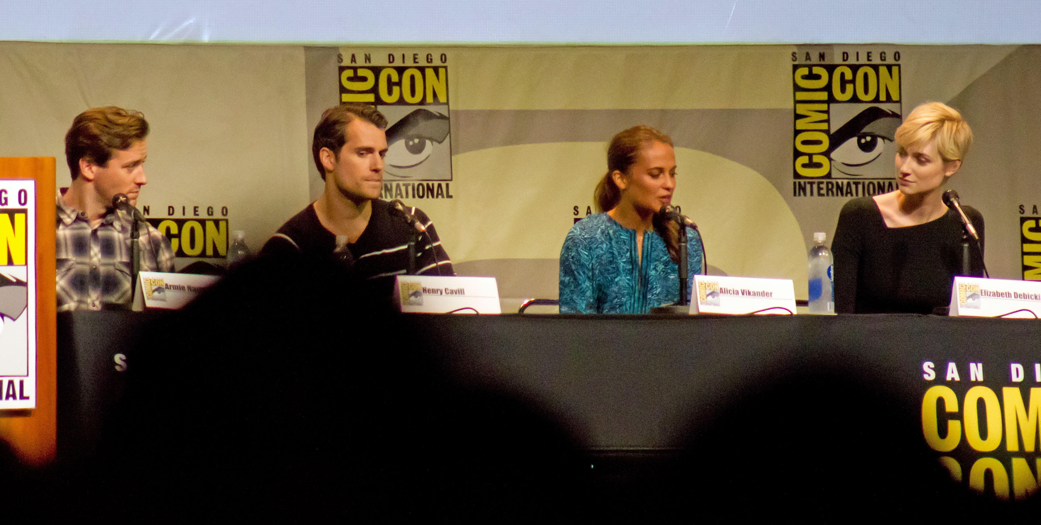 Man from U.N.C.L.E.Taken at the 2015 Comic-Con International in San Diego.